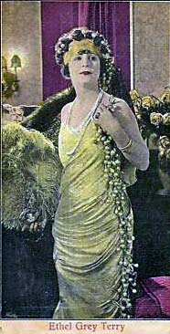 Ethel Grey Terry as Rose in The Penalty (1920).